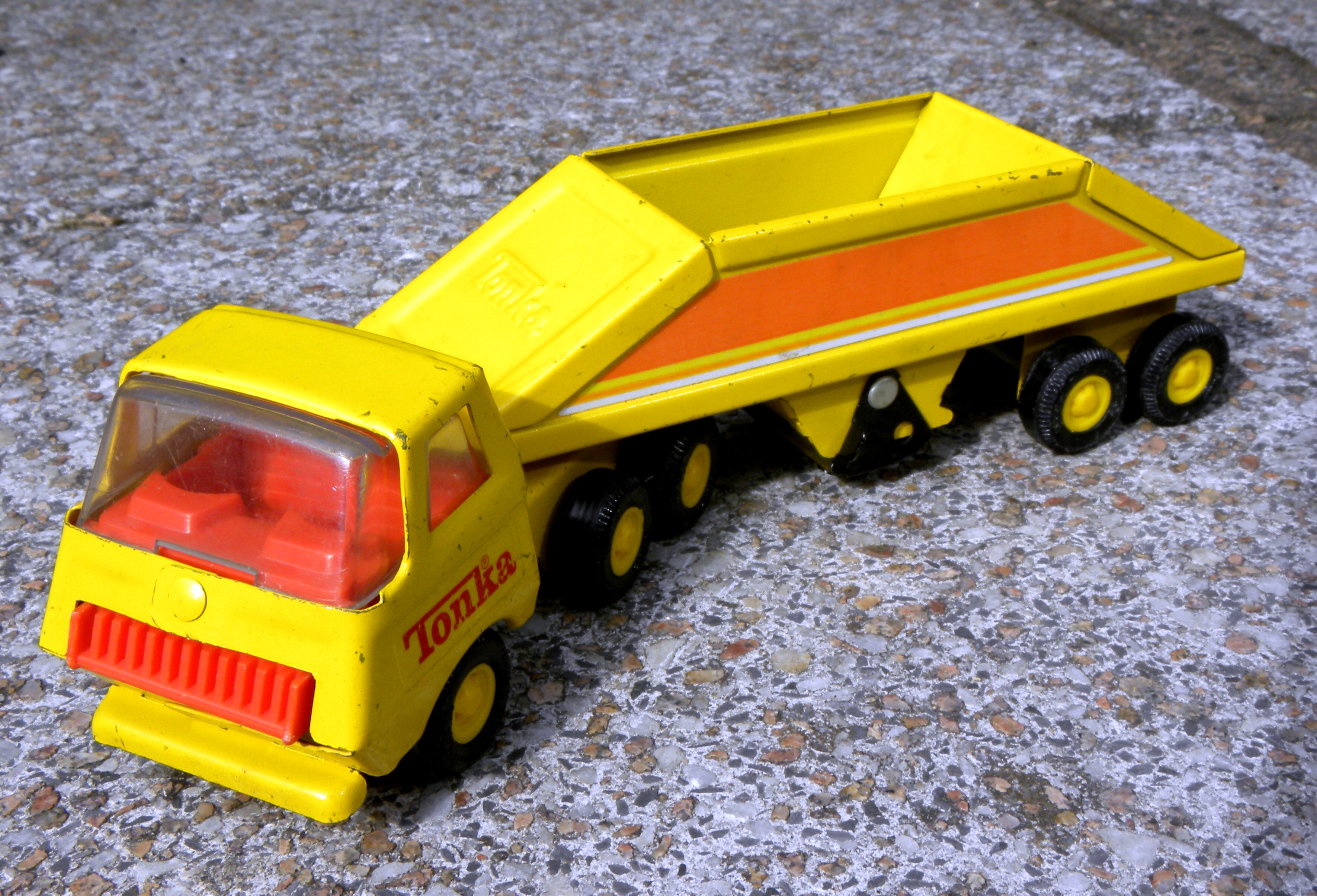 Bottom dump truck from 1978 Tonka 55010 trailer 55130